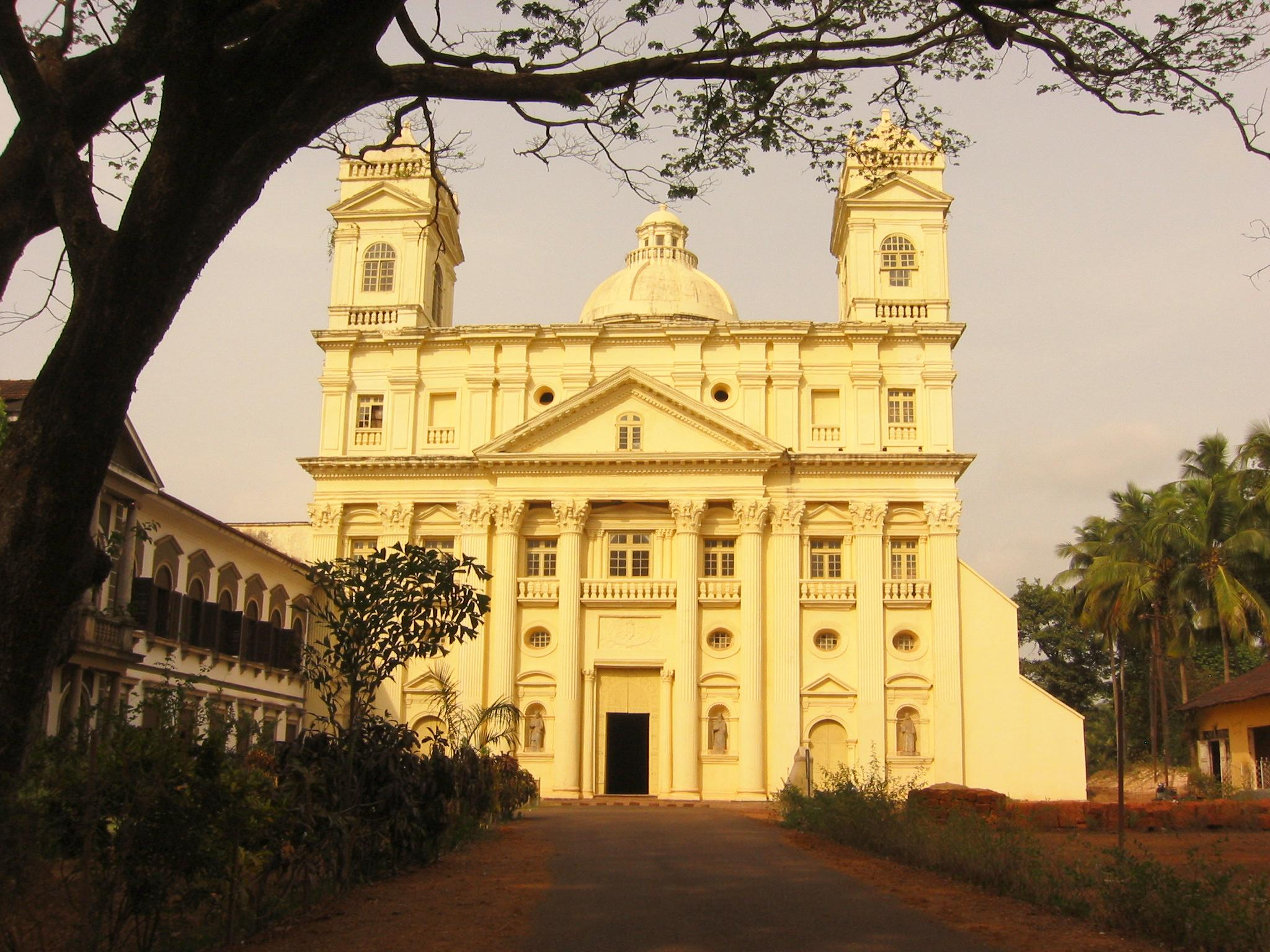 Cathedral of Saint Cajetan in Velha Goa, Goa, India